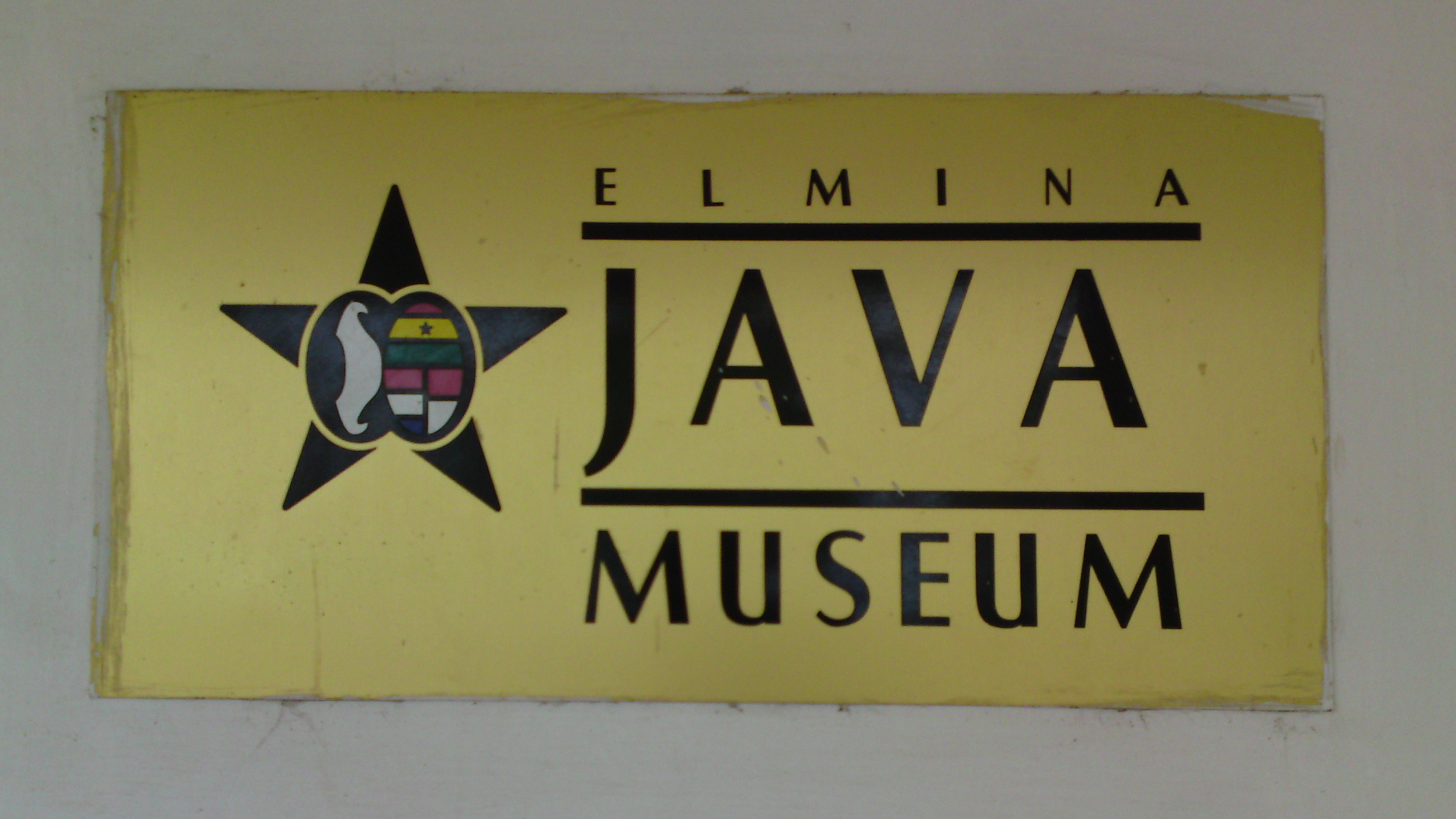 Sign of the Elmina Java Museum in Elmina, Ghana